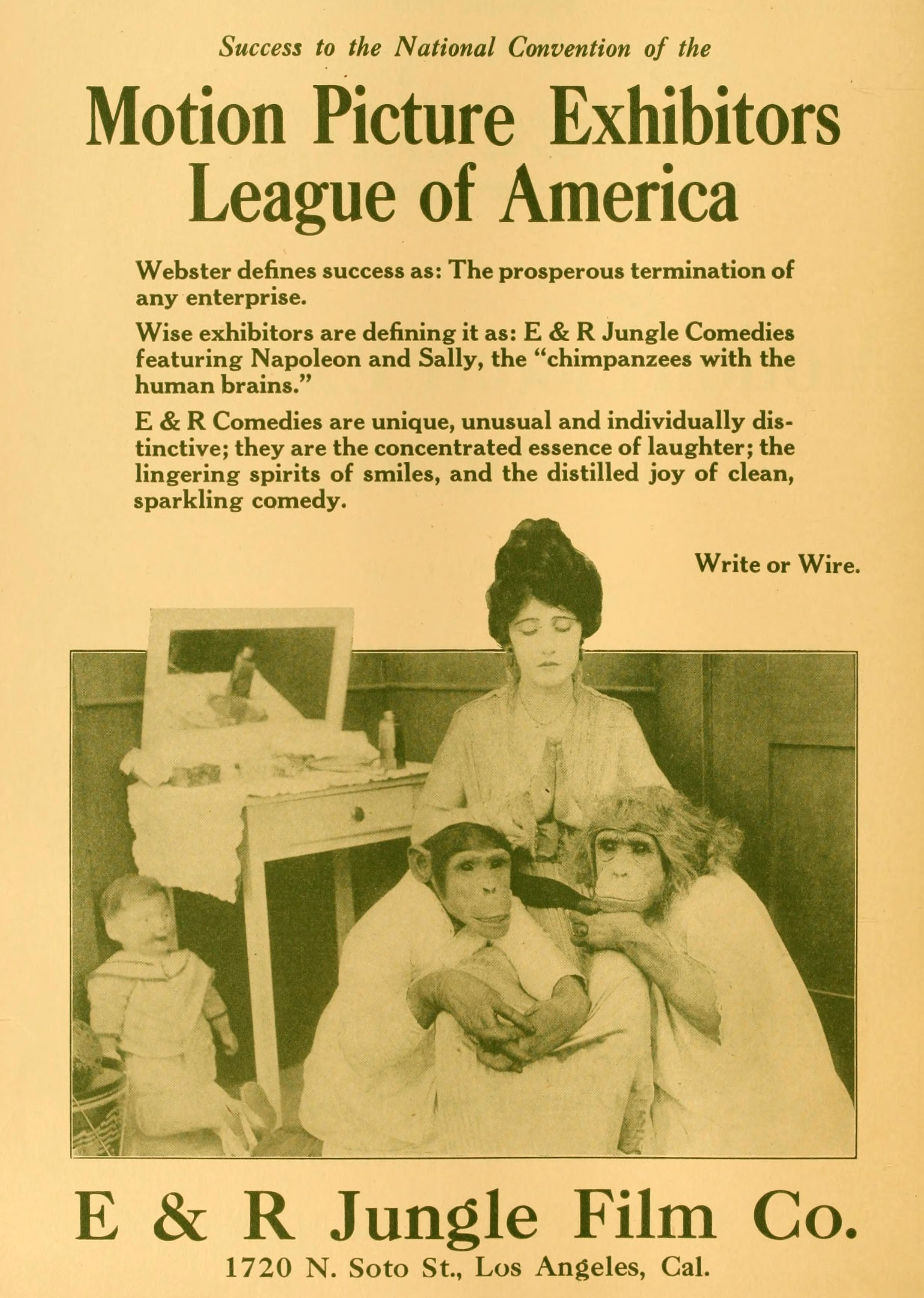 Advertisement in The Moving Picture World